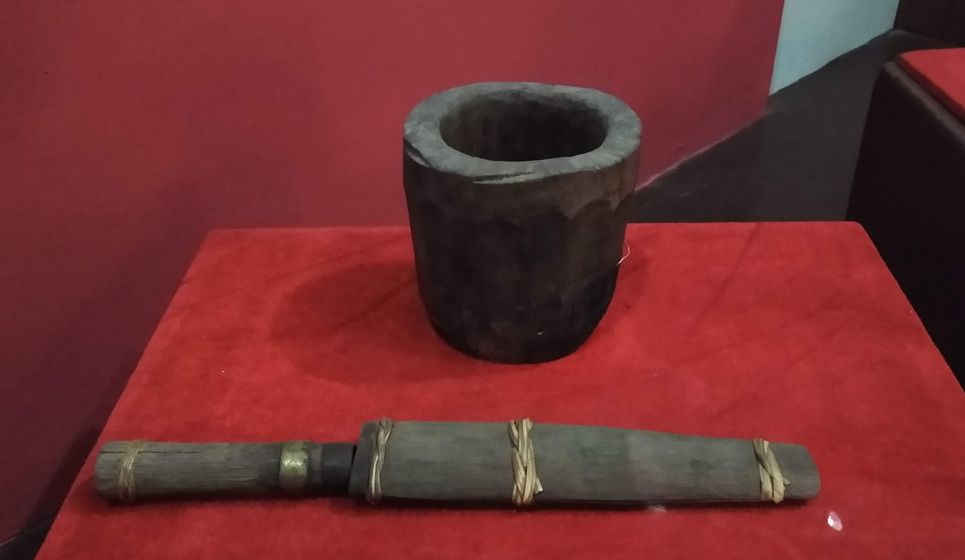 On display at the Kaysone Phomvihane Museum in Vientiane. According to the label: "A material set use by comrade Kaysone Phomvihan in the taking an oath party with the local functionaries in Laohung Phiengsa region, Xiengkho District, Houaphan Province. 1948"